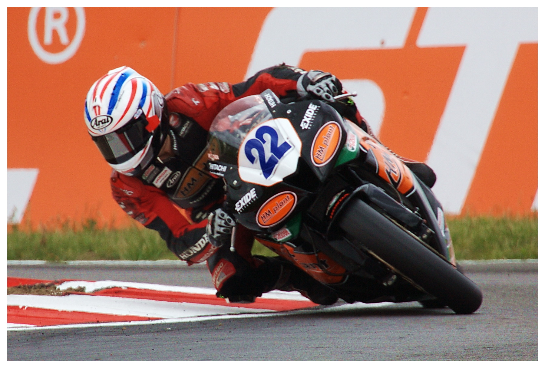 Steve Plater ~ HM Plant Honda (Fuchs-Silkolene British Supersport Championship)